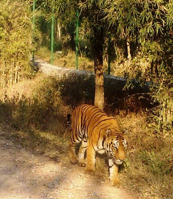 Bengal Tiger at Bannarghetta National Park, India